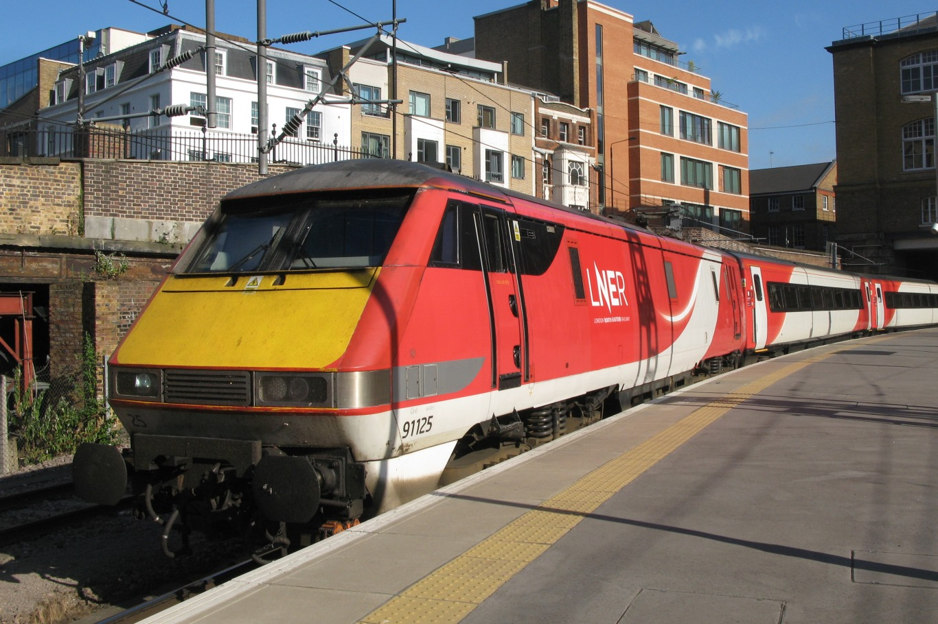 London North Eastern Railway's 91125 in Platform 0 at London King's Cross station, waiting for a clear line to take its train out to the depot at Bounds Green.